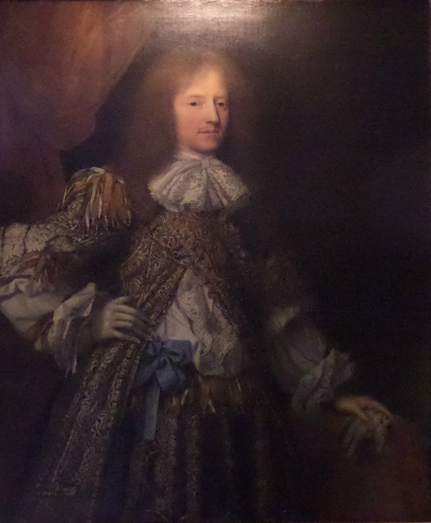 John Granville, 1st Earl of Bath. Painting, possibly a copy, displayed in Dunrobin Castle in Sutherland, Scotland, a seat of the Duke of Sutherland. One of the daughters of John Granville, 1st Earl of Bath PC (1628-1701), of Stowe in the parish of Kilkhampton in Cornwall, was Lady Jane Granville (d.1696), wife of Sir William Leveson-Gower, 4th Baronet and mother of John Leveson-Gower, 1st Baron Gower. The progeny of this marriage were co-heirs to the 3rd Earl of Bath. Her great-grandson was Granville Leveson-Gower, 1st Marquess of Stafford (1721–1803) one of whose younger sons was Granville Leveson-Gower, 1st Earl Granville (1773–1846) (younger half-brother of George Leveson-Gower, 1st Duke of Sutherland (1758–1833)), whose son was Granville Leveson-Gower, 2nd Earl Granville (1815–1891), Secretary of State for Foreign Affairs. A second Granville Earldom had been created for the Leveson-Gower family in 1833, following the death in 1776 without progeny of the last earl of the first creation Robert Carteret, 3rd Earl Granville (1721-1776), grandson of Lady Grace Grenville, suo jure 1st Countess Grenville, sister of Lady Jane Grenville.